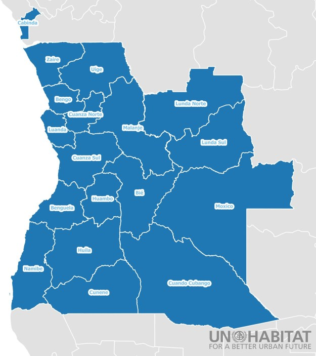 Map of Angola with its provinces